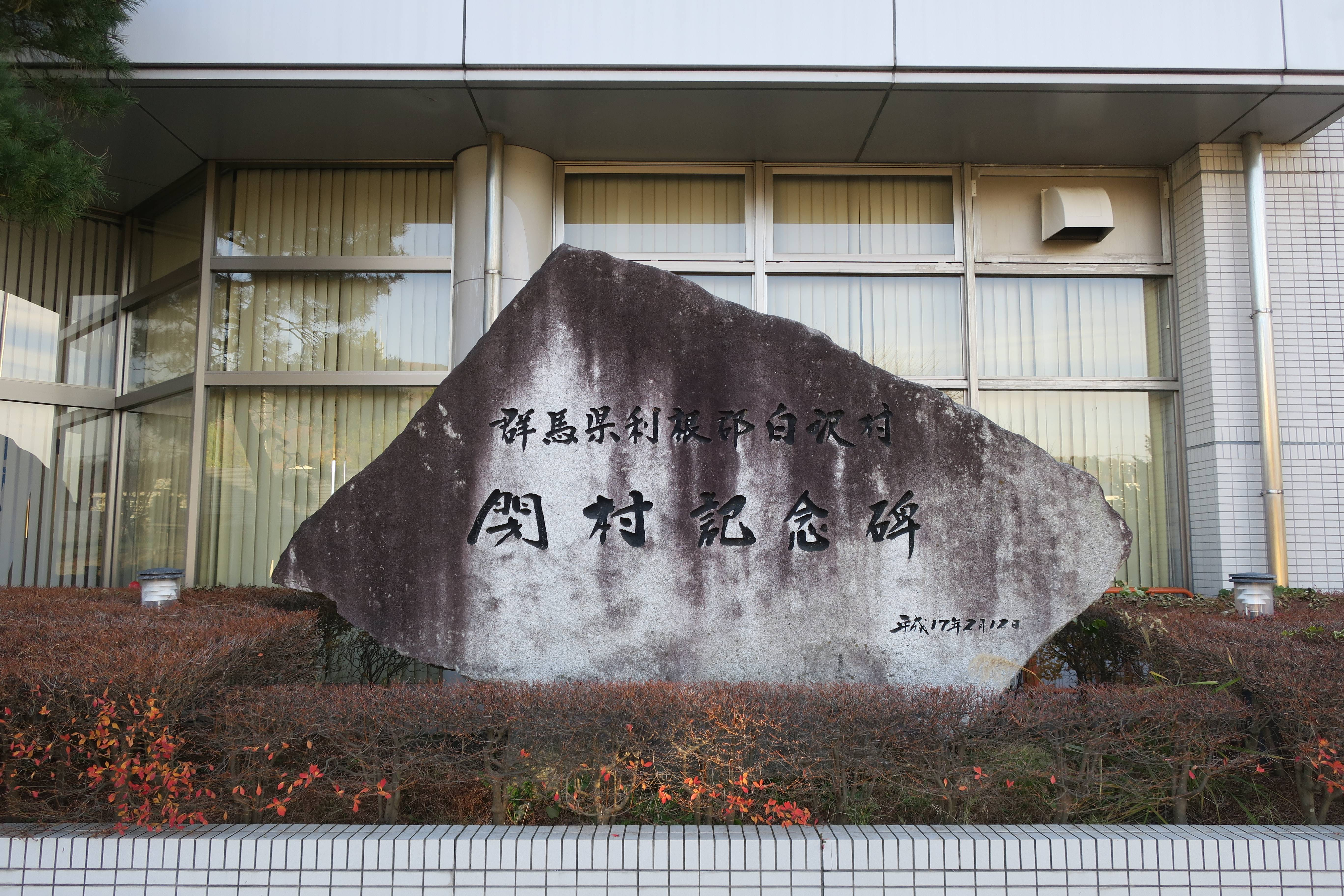 Numata city Shirasawa branch office.